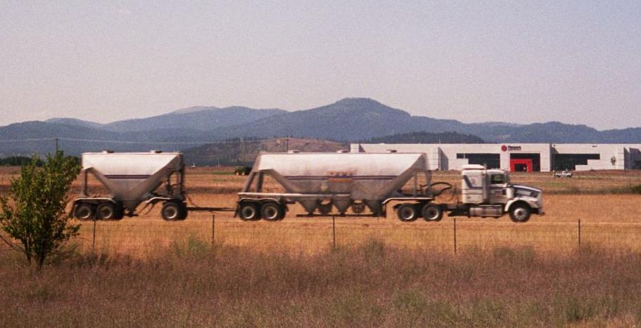 Cropped version of Roadtrain.jpg